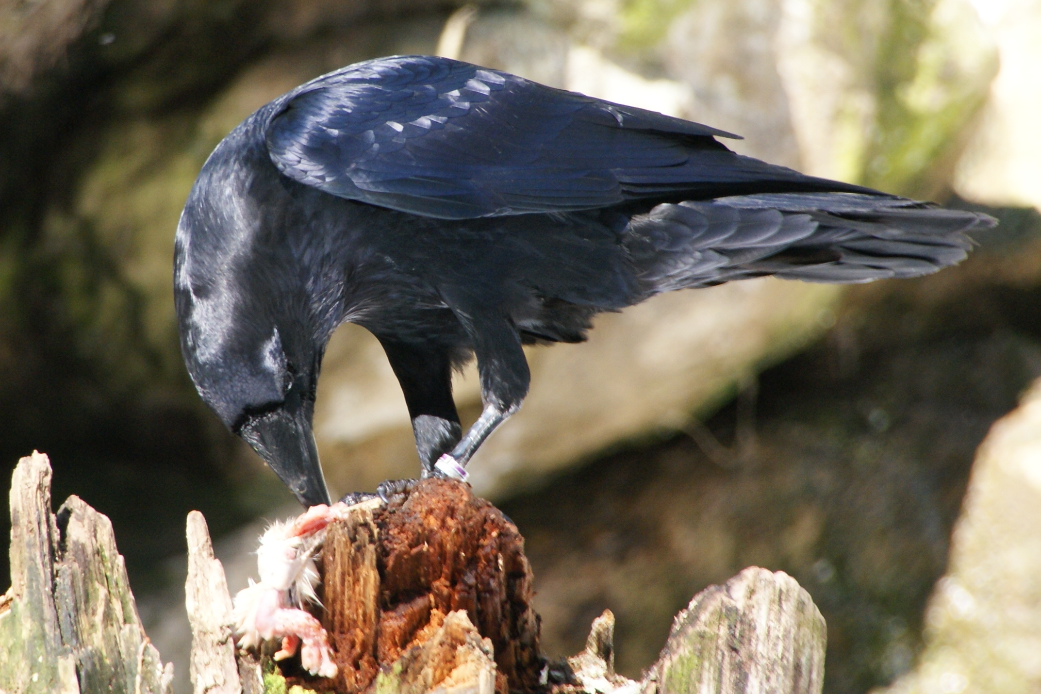 Common Raven in an open-air enclosure at the National Park Bavarian Forest